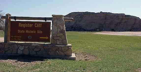 Small photo of Register Cliff near Guernsey, Wyoming. This is an area were emigrants on the Oregon Trail would carve their names in the soft rock.